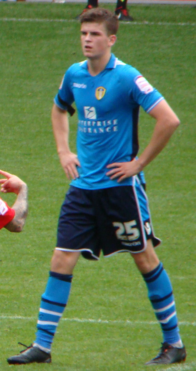 15/09/12 Cardiff v Leeds United, Championship, Cardiff City Stadium, Cardiff, Wales